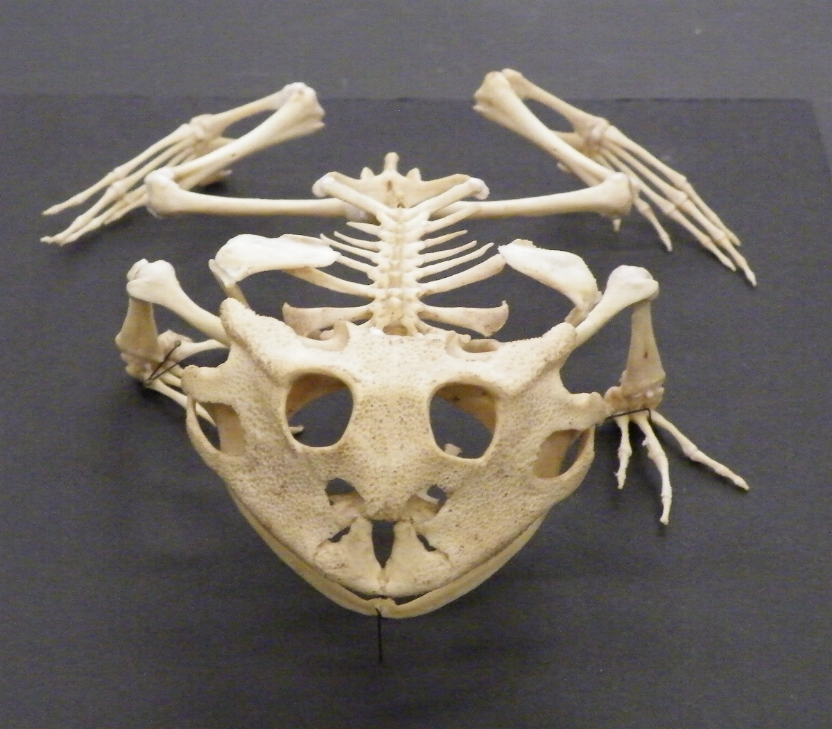 The mounted skeleton of a large adult Ceratophrys cornuta